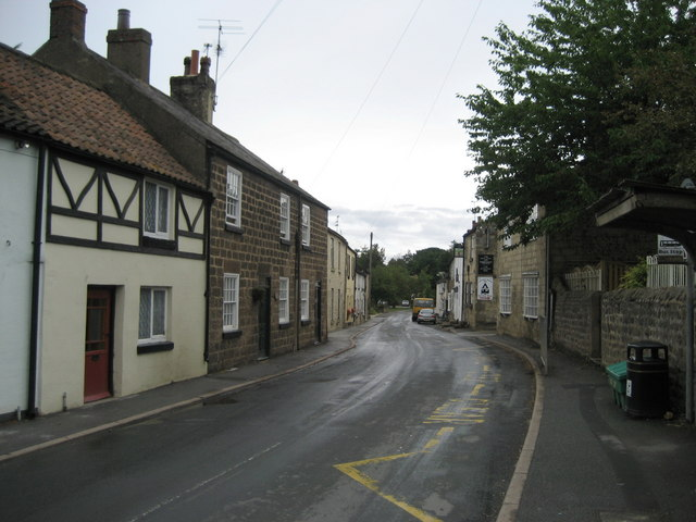 Markington. Small Village between Ripon and Harrogate